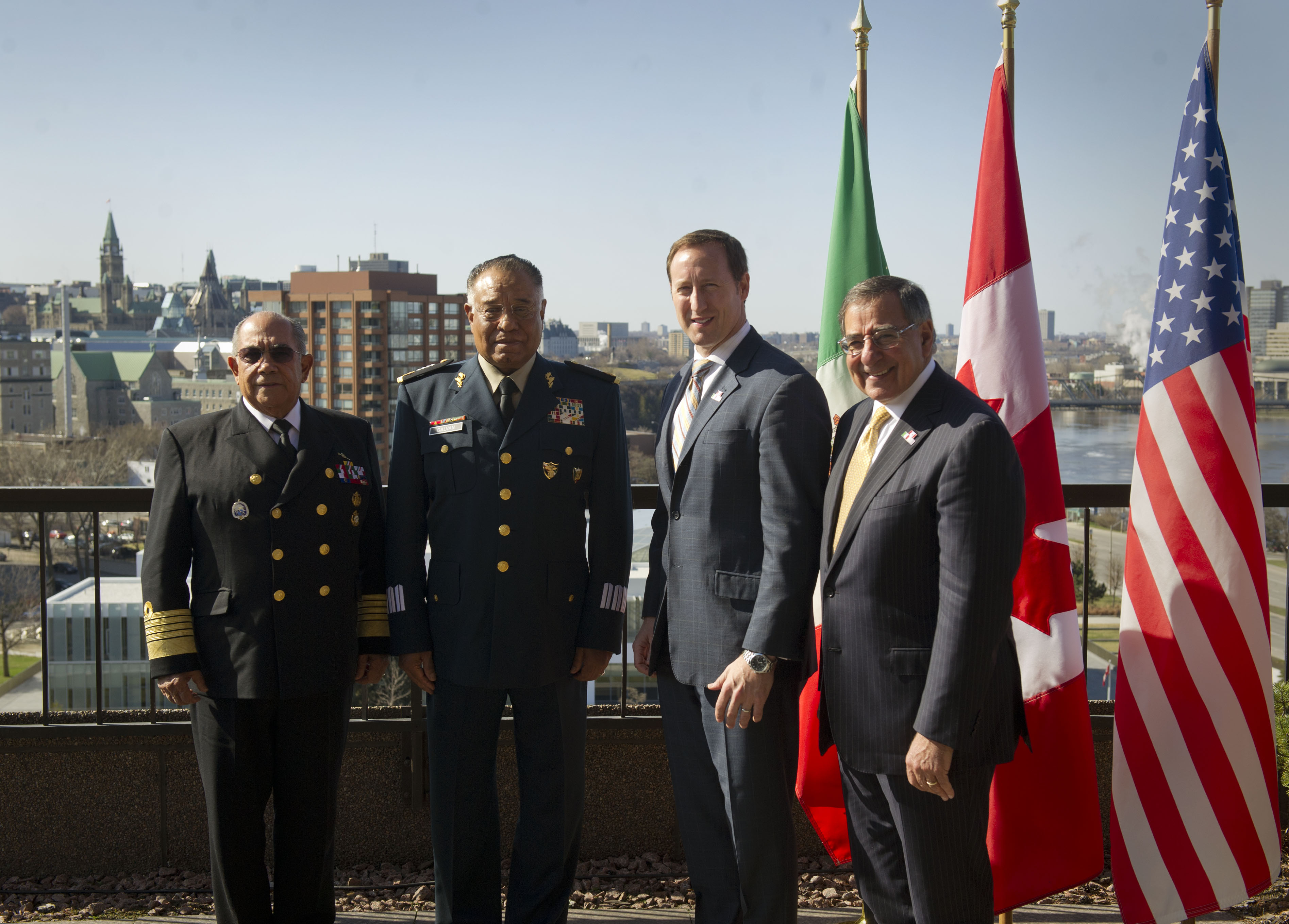 From left, Mexican Secretary of National Defense Gen. Guillermo Galván Galván, Mexican Secretary of the Navy Vice-Admiral Mariano Francisco Saynez Mendoza, Canadian Minister of National Defense Peter MacKay and U.S. Secretary of Defense Leon E. Panetta pose for a family portrait on the roof of Lester B. Pearson Building prior to trilateral in Ottawa, Canada, Tuesday, March 27, 2012. Pictured in background is the city of Ottawa and Canadian Parliament (left). (DoD Photo by Glenn Fawcett)(Released)